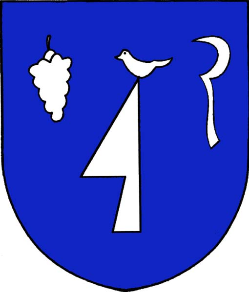 Municipal coat of arms of Rozdrojovice village, Brno-Country District, Czech Republic.